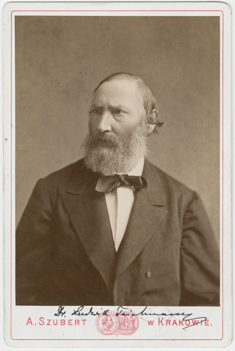 Portrait of Ludwik Teichmann from the album of Józef Majer